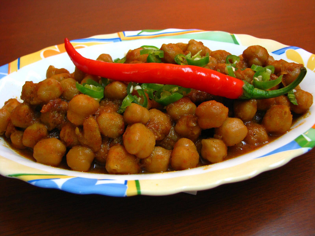 Chole